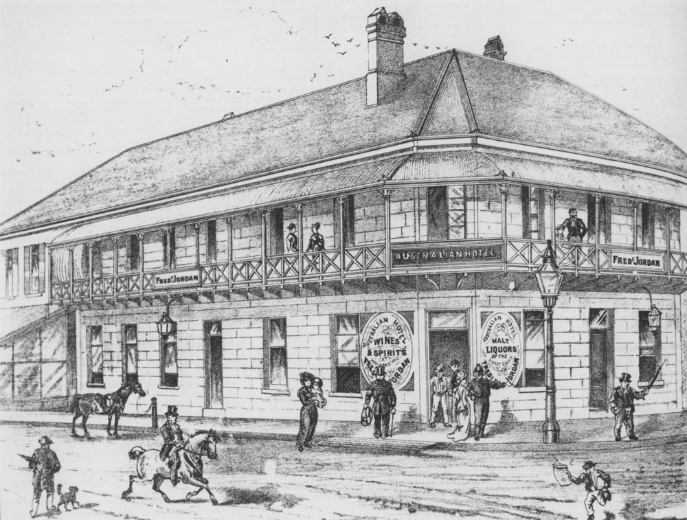 Illustration of the Australian Hotel, Brisbane, circa 1886.